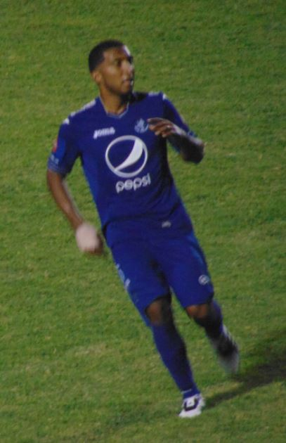 Mayorquin